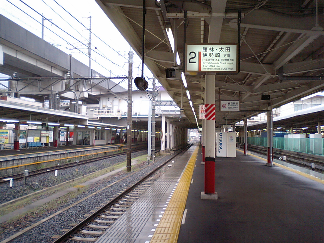 Platform of Kuki station (Tobu Isesaki Line)